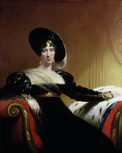 Anne Hamilton (1766–1846), lady-in-waiting to Queen Caroline, eldest daughter of the Lord Archibald, 9th Duke of Hamilton (1740-1819)